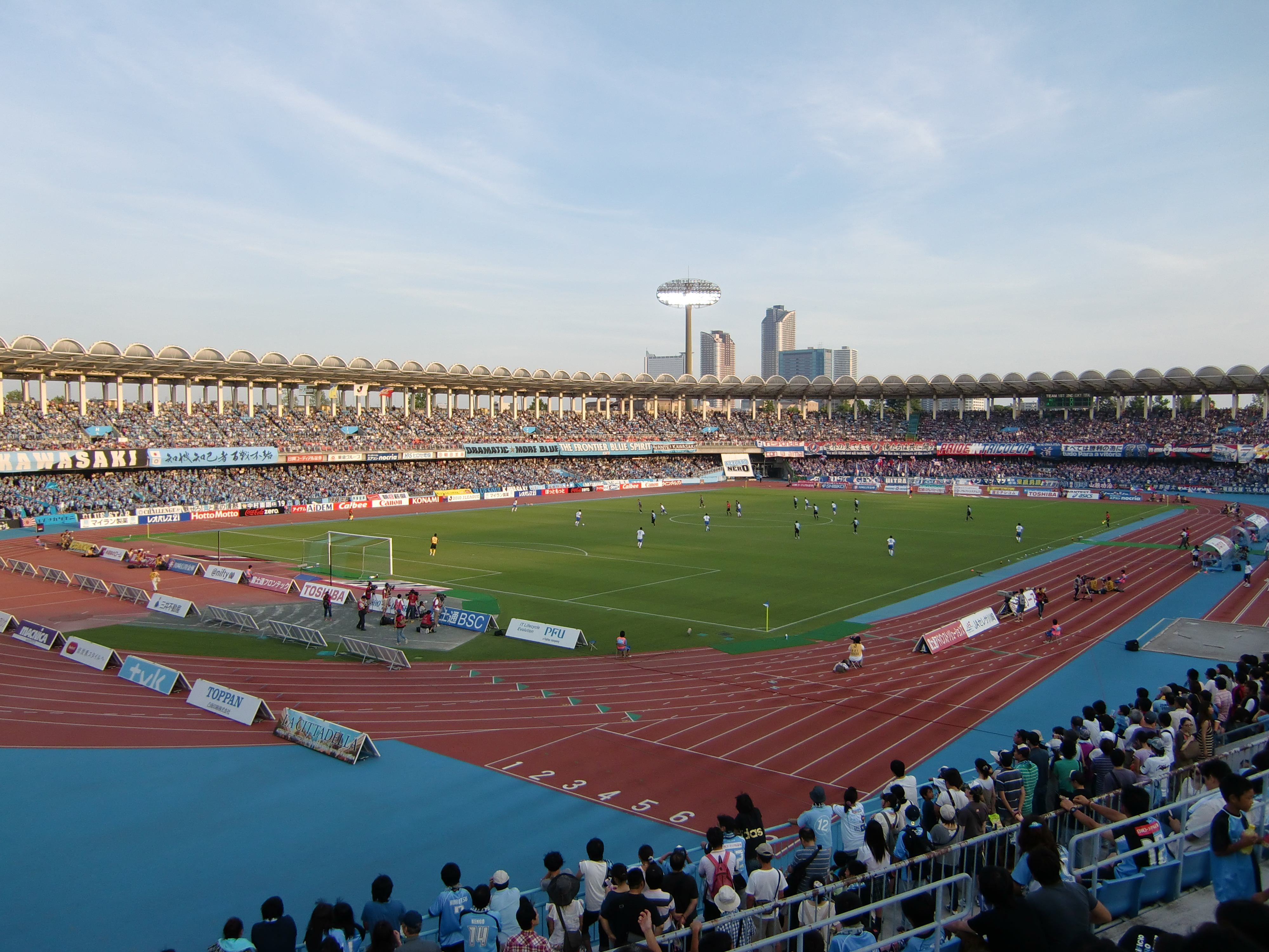 Todoroki stadium. Nakahara-ku,Kawasaki-shi,Kanagawa-ken,Japan